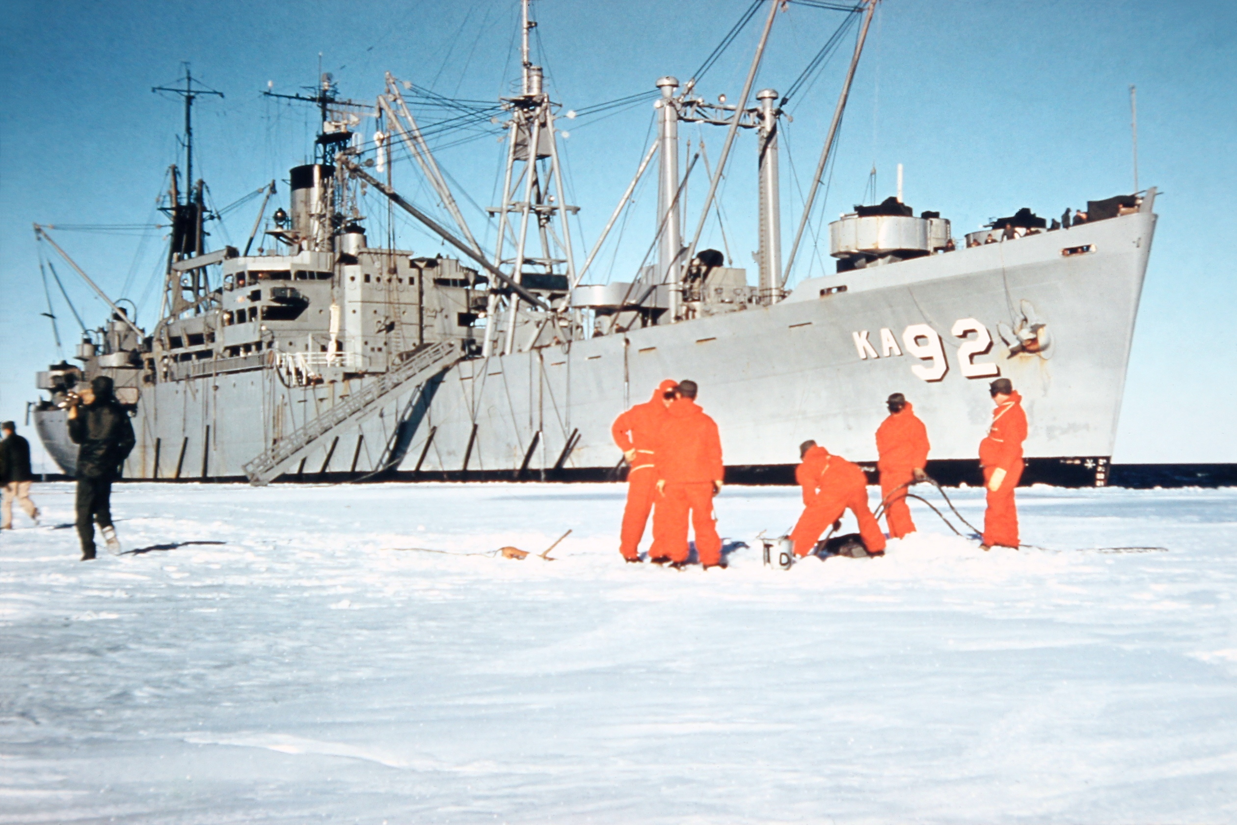 USS Wyandot (KA-92) mooring at McMurdo Station, Antarctica, as part of Operation Deep Freeze I. Crewmen are "burying the deadman" to anchor the ship to the ice shelf.